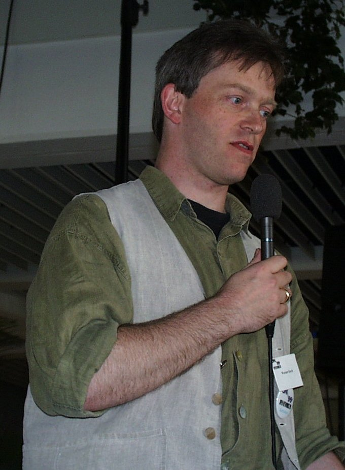 Werner Koch talks about GnuPG at OpenNetworks1999 in Copenhagen, Denmark.